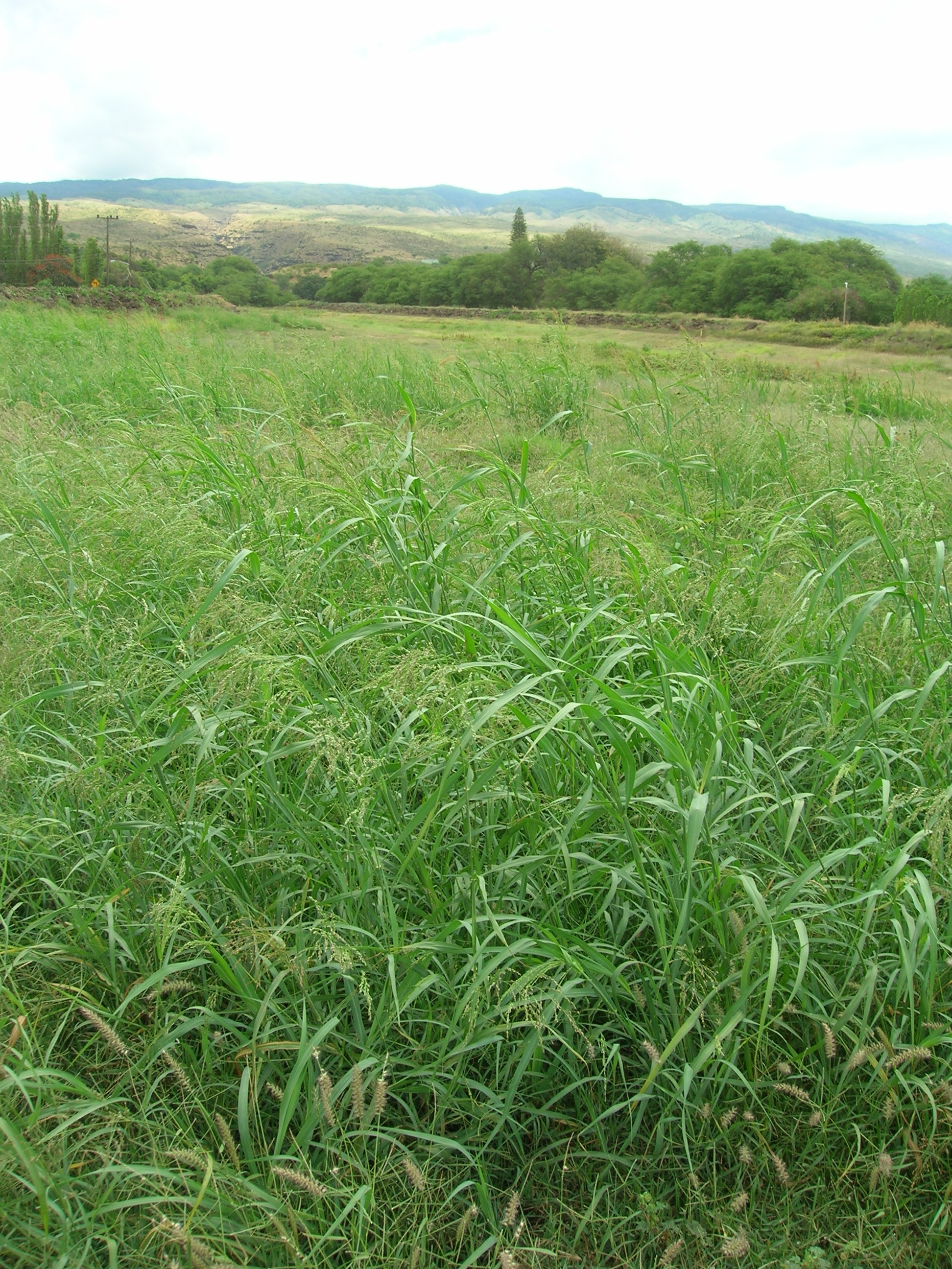 Panicum antidotale (habit). Location: Molokai, Kalamaula